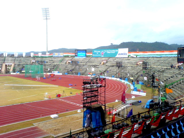 Sarusajai Stadium pic 2